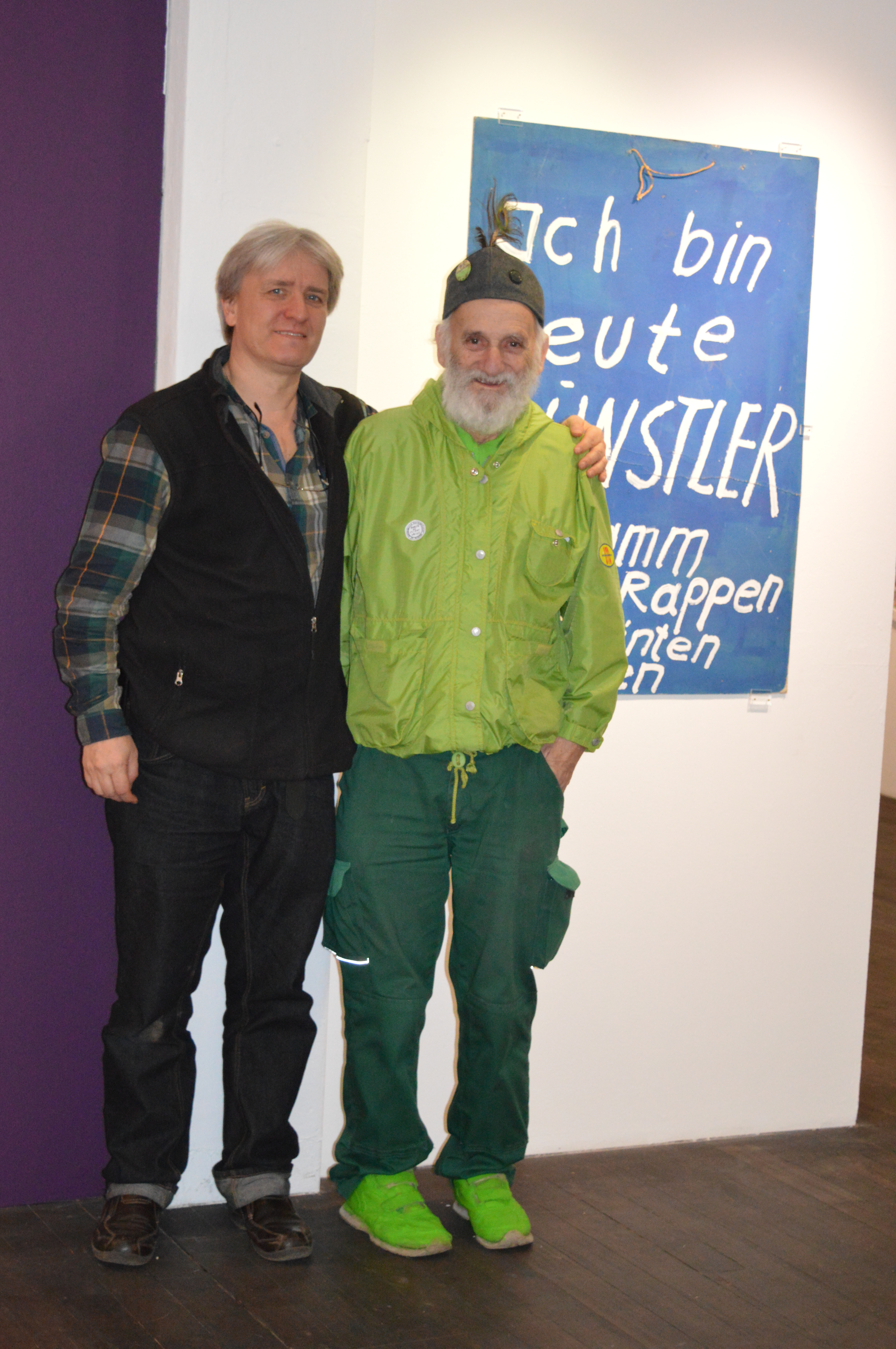 Parzival (Serge Reverdin) and Dietrich Michael Weidmann during the Dernière of the Exposition at Museum Lagerhaus St. GallEsperanto: Parzival (Serge Reverdin) kaj Dietrich Michael Weidmann dum la malfermo de la Ekspozicio en Muzeo Lagerhaus Sankt-Galo